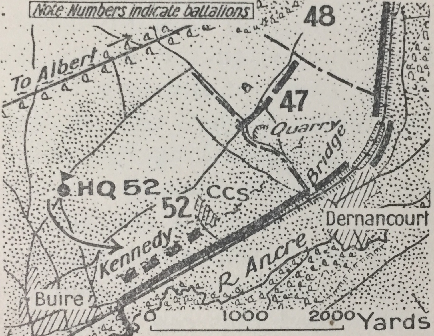 Map showing the positioning of the support line of the 52nd Battalion in the Second Battle of Dernancourt 1918